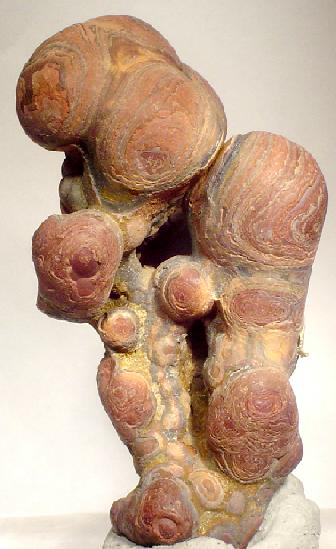 Cassiterite (Var.: Wood Tin) Locality: Durango, Mexico (Locality at ) A sculptural and highly unusual cluster of stalactitic-botryoidal, banded, red-brown cassiterite from a very uncommon Mexico locality. Ex Richard Hauck Collection. 5.0 x 4.9 x 3.3 cm